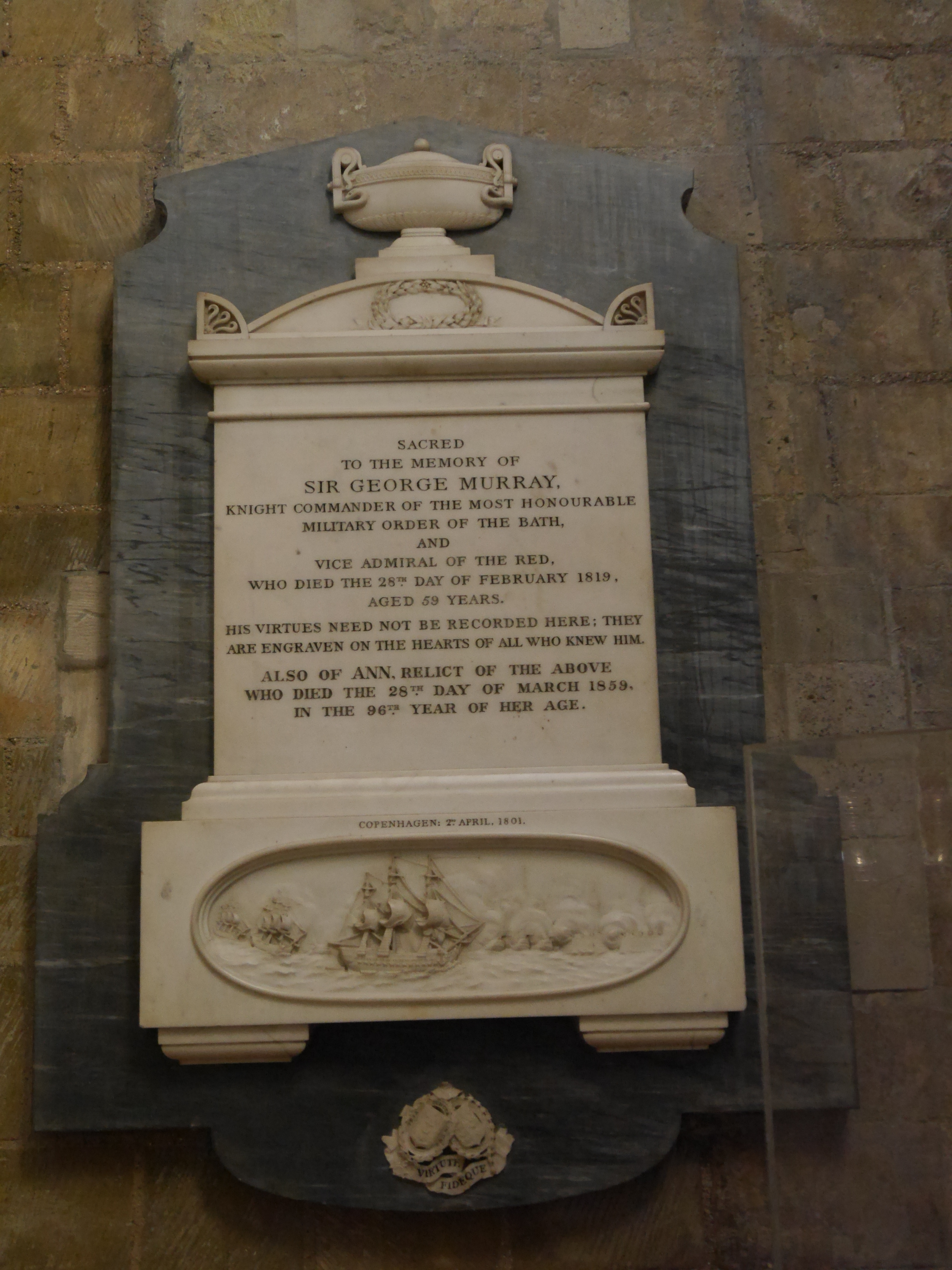 Chichester Cathedral, July 2015